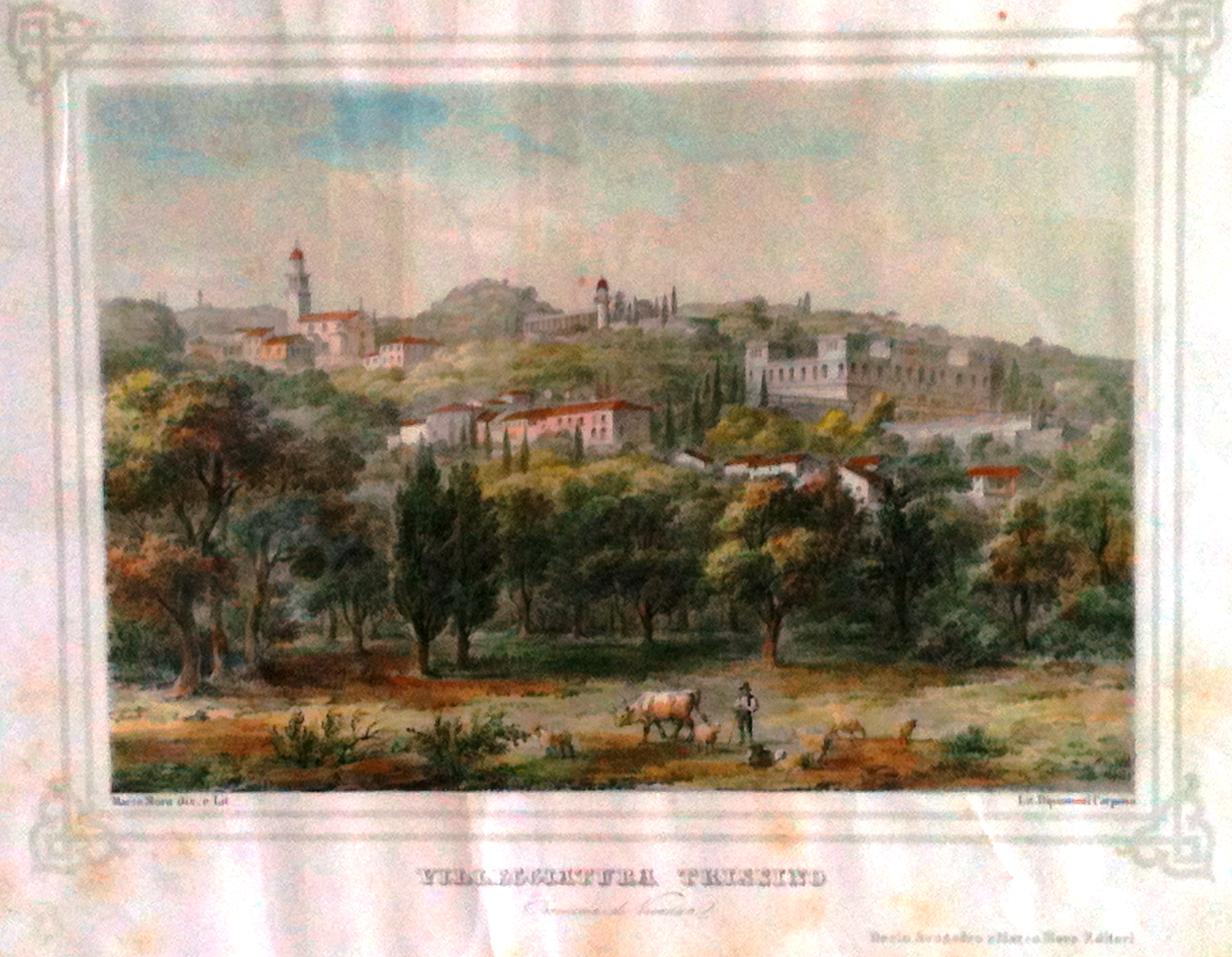 lithography "Villeggiatura Trissino", #27 out of 31 views by Marco Moro, in "Il Veneto nelle litografie", 1850